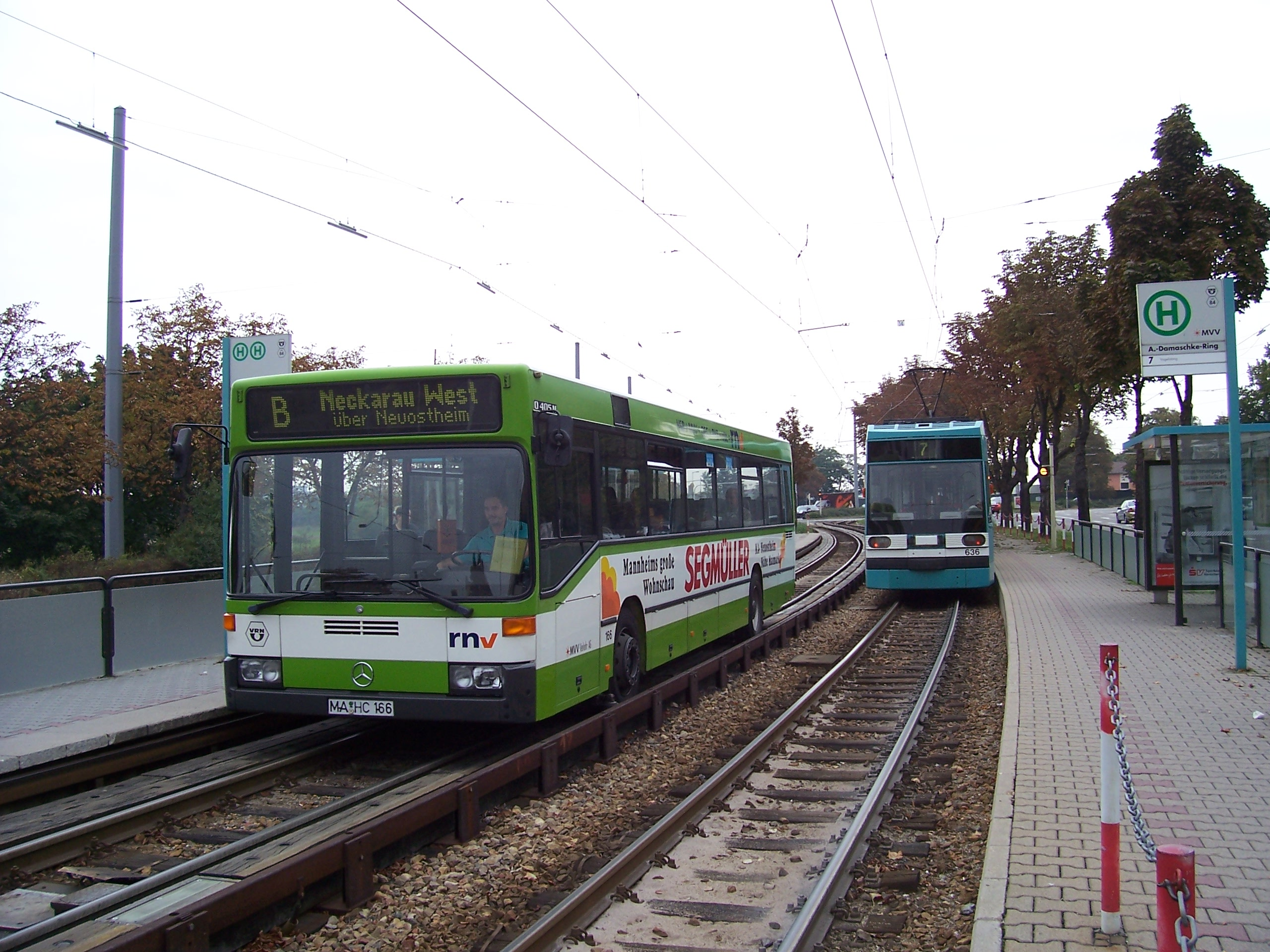 Mercedes-Benz O 405 N owned by MVV Verkehr AG on the kerb-guided busway in Mannheim-Feudenheim, Germany